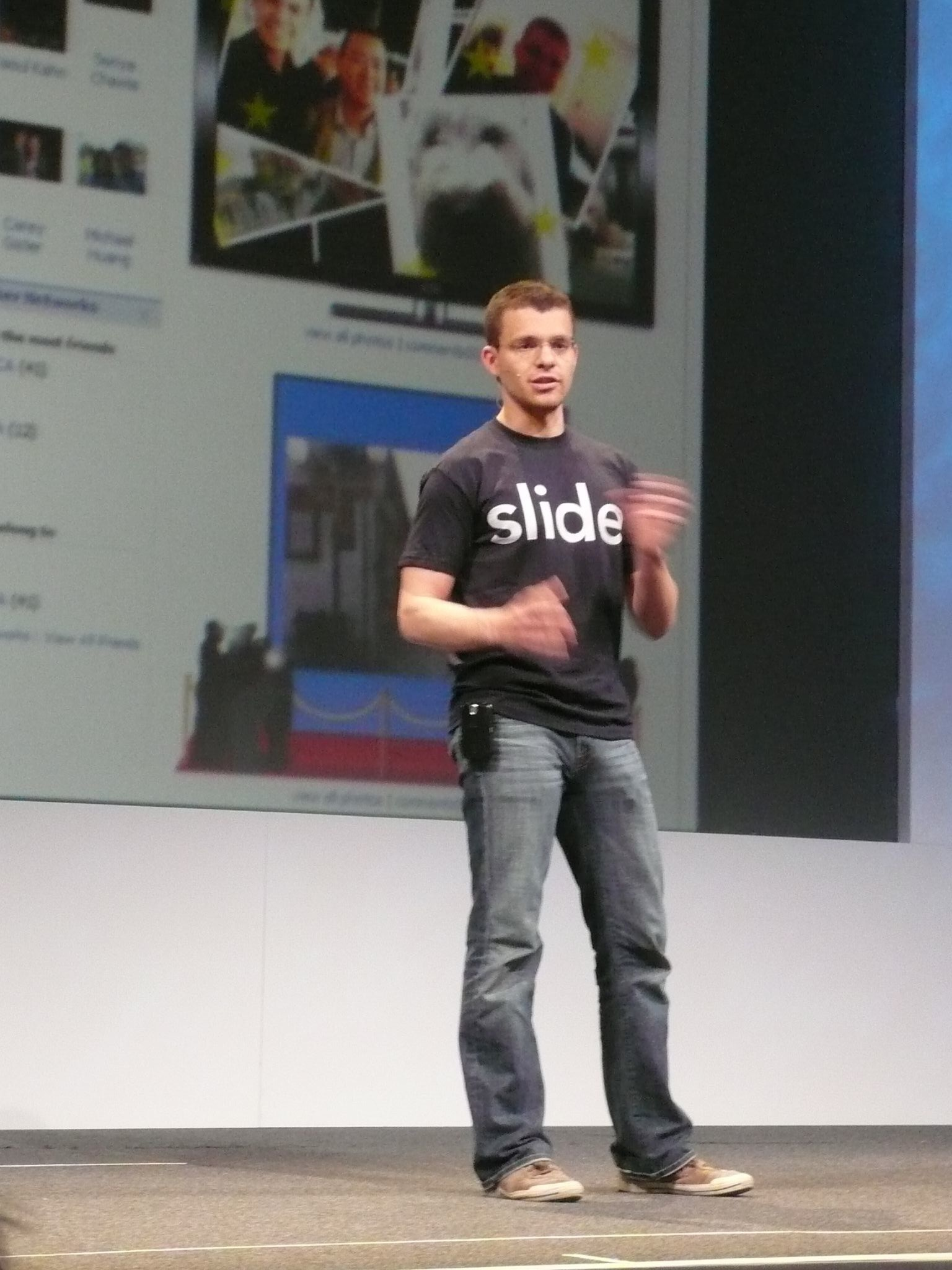 Max LevchinMax